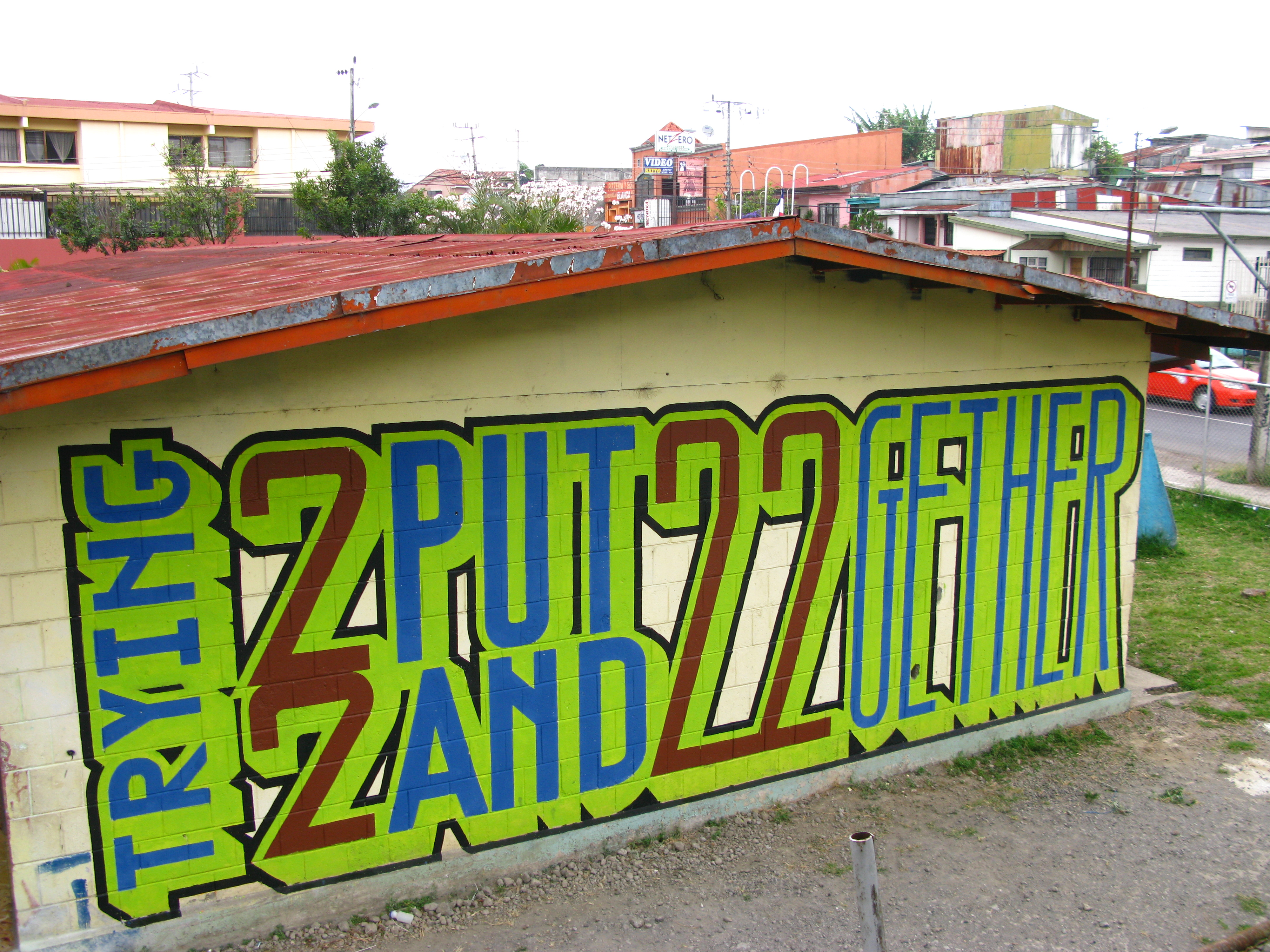 A word/play painting painted in San Jose, Costa Rica.